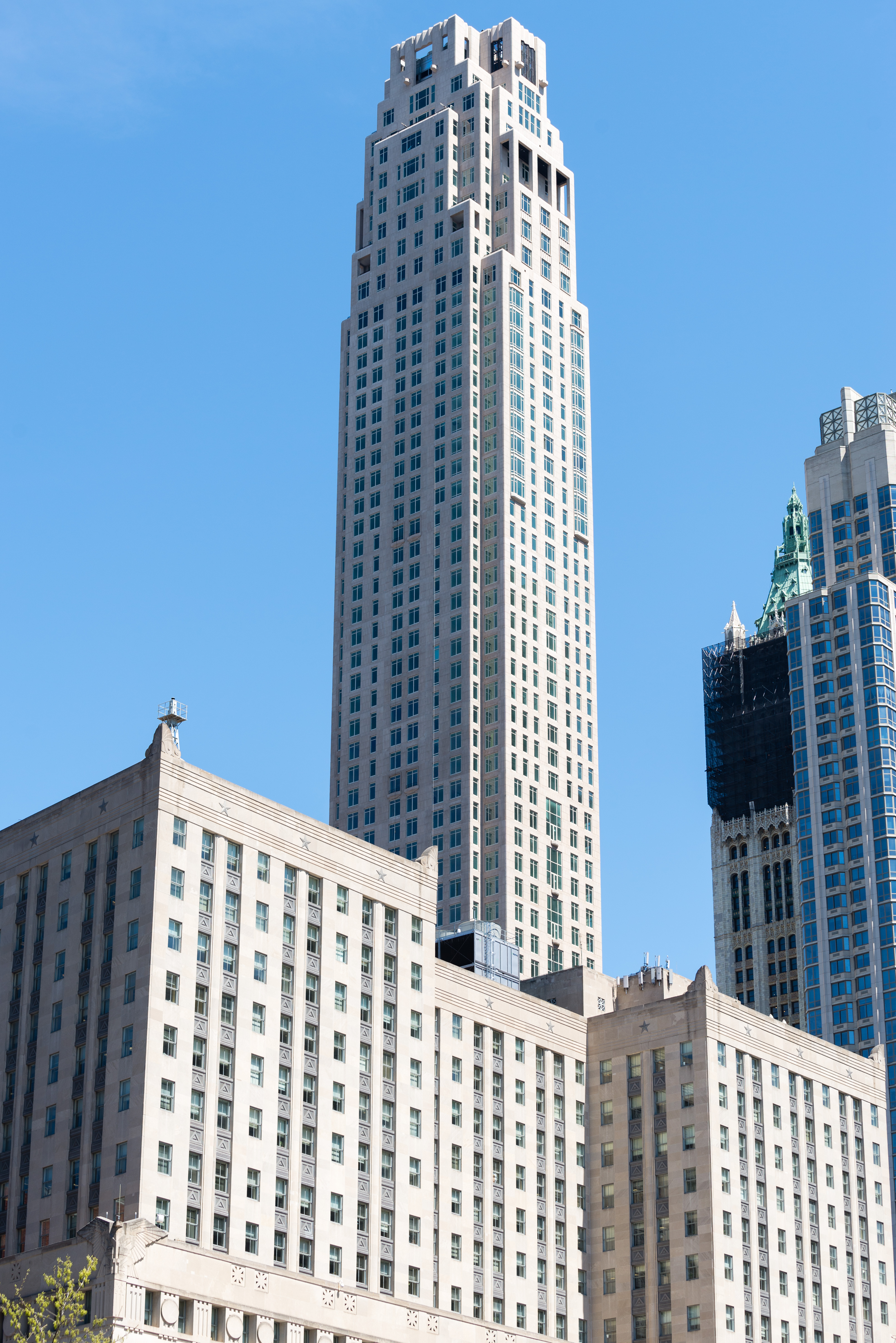 30 Park Place, a condominium tower near the Woolworth Building in lower Manhattan. Partly visible in foreground is the U.S. Postal facility at 90 Church Street.